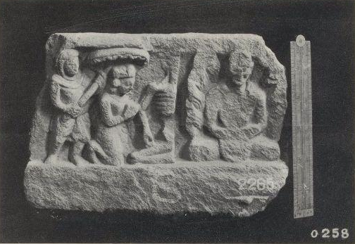 The death and attainment of final Nirvana of Ānanda, the attendant of the Buddha and one of the patriarchs of the Buddhist teaching. Originally from Sikri, India. Sculpted in Greco-Buddhist style, the bas-relief depicts the death of Ānanda which took place in meditation posture [pictured at the right]. At the left, we can see half of the skeleton of Ānanda, which King Ajātasattu (Sanskrit:Ajātaśatrū) is worshiping. The other half of the skeleton was given to the Licchavi clan, but this is probably depicted in the right part of the relief, which has not survived.